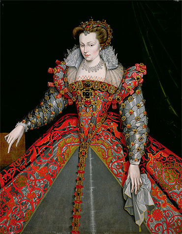 Portrait of Louise de Lorraine(1553-1601)